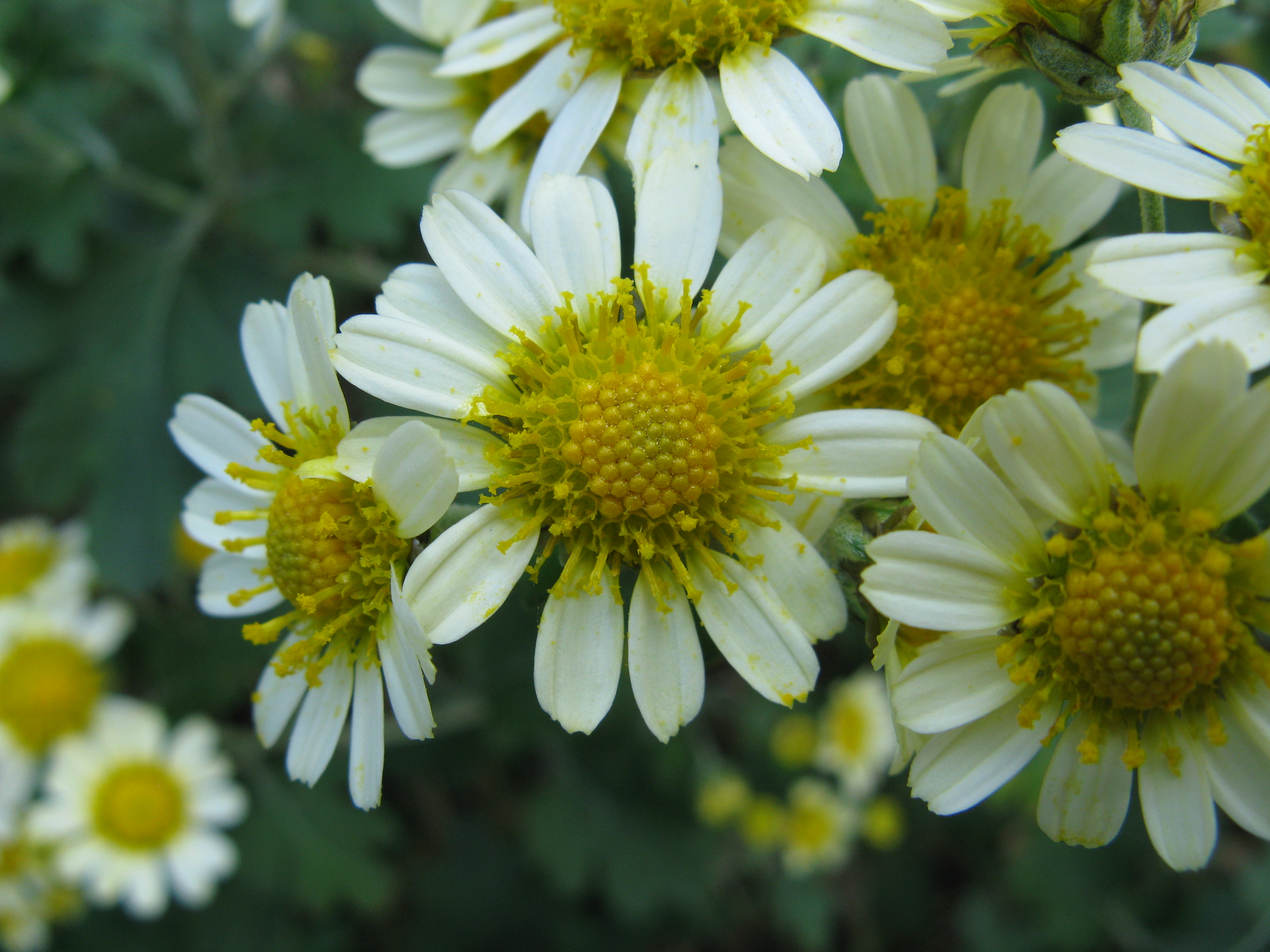 Scientific name Chrysanthemum japonense var. crassum